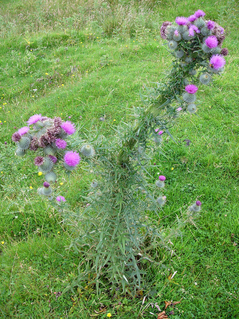 Large thistle on Lismore, Scotland.